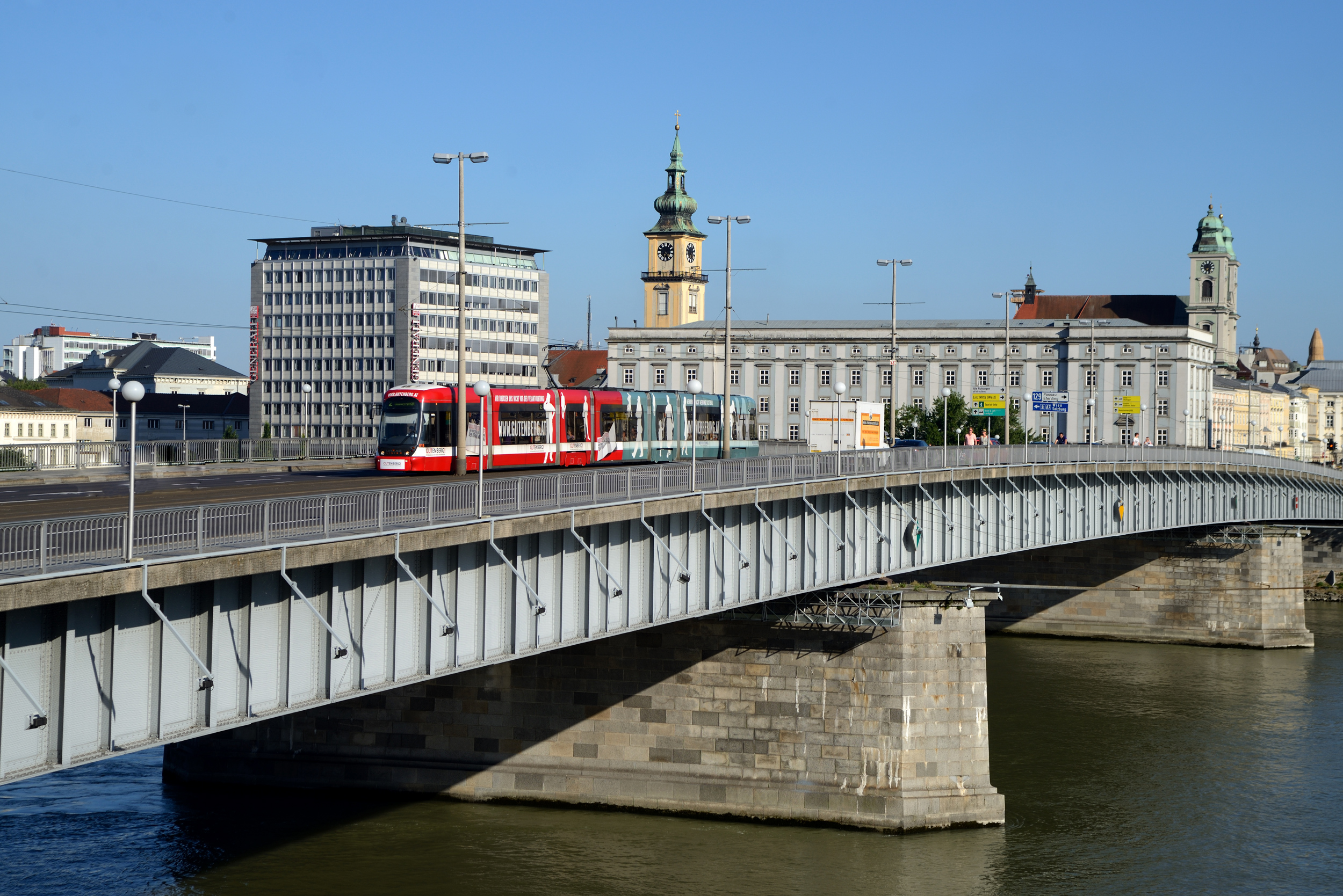 Flexity Outlook Tram on the Danube Bridge (Nibelungenbrücke).